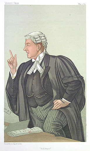 Caricature of Mr Charles Frederick Gill (1851-1923), Barrister and Recorder of Chichester. Caption read "Gill Brass".